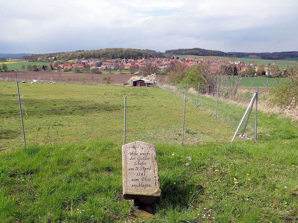 Gielde, view from the south.